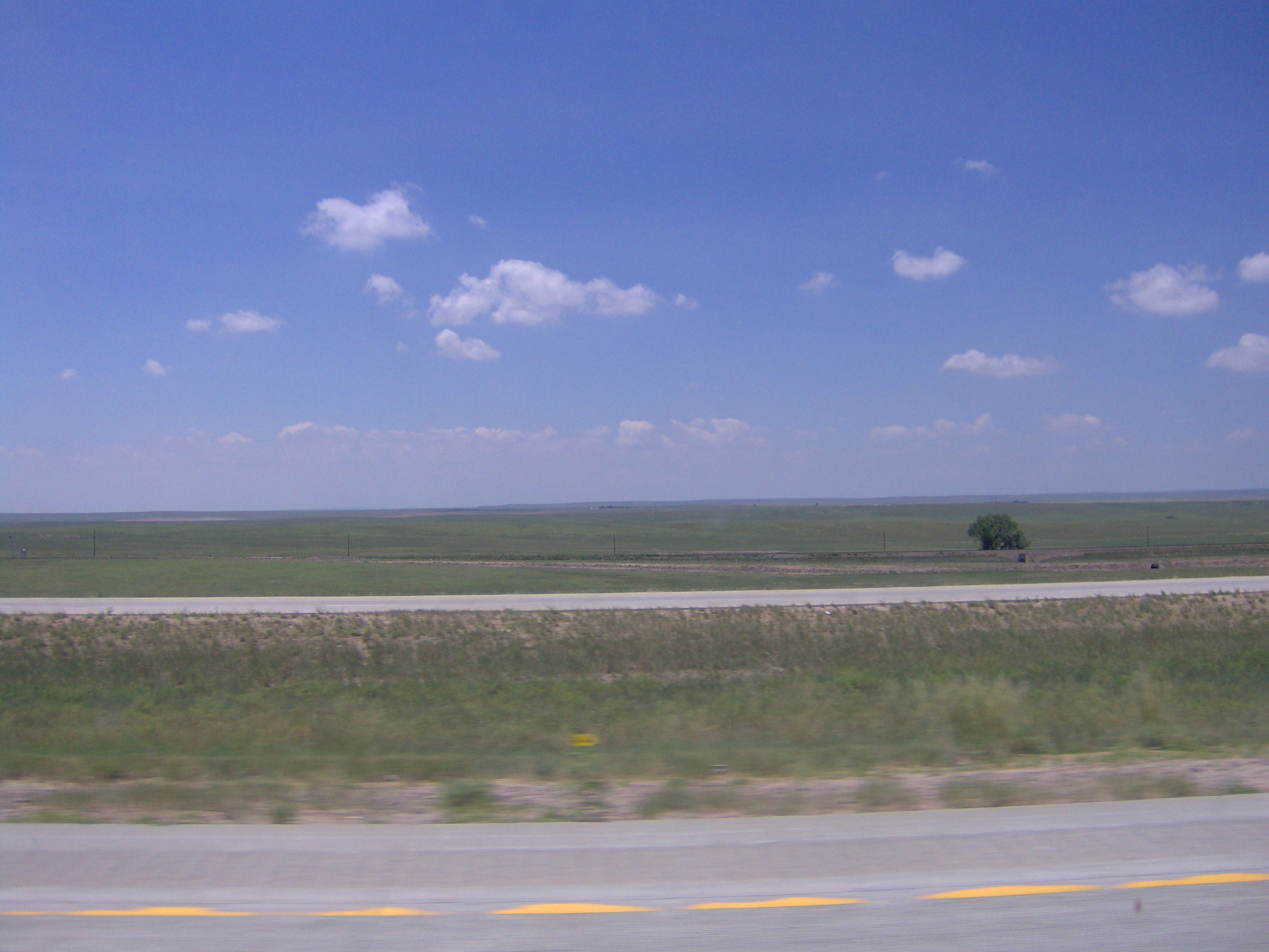 Terrain along Interstate 70 in eastern Colorado.